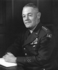 Lt. General Thomas Wade Herren, United States Army. Commanding General, First United States Army.